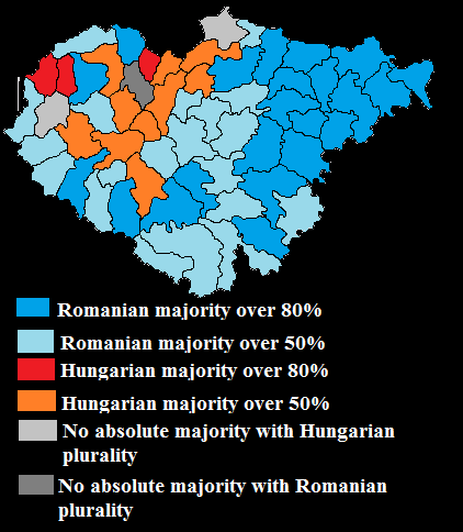 Ethnic map of Sălaj County, based on the 2011 census.